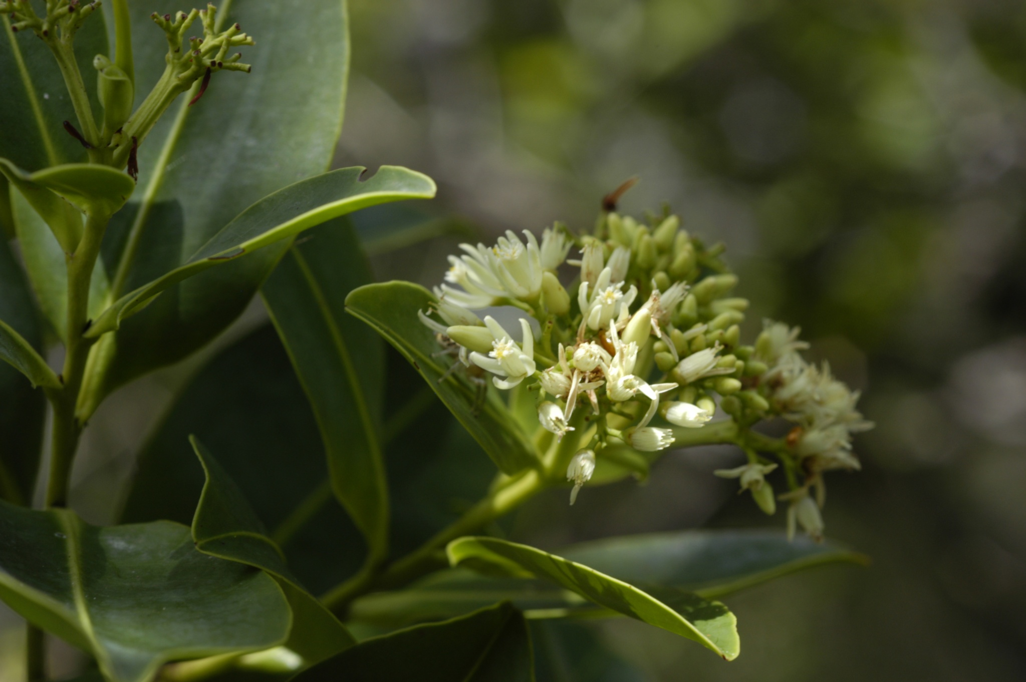 Inflorescence of Humiria balsamifera (Humiriaceae). Ajuruteua peninsula, Bragança, Pará, Brazil